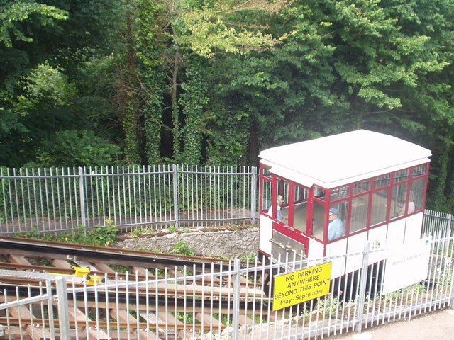 A car of the Babbacombe Cliff Railway, in Torquay, Devon, England. For more information see the Wikipedia article Babbacombe Cliff Railway.